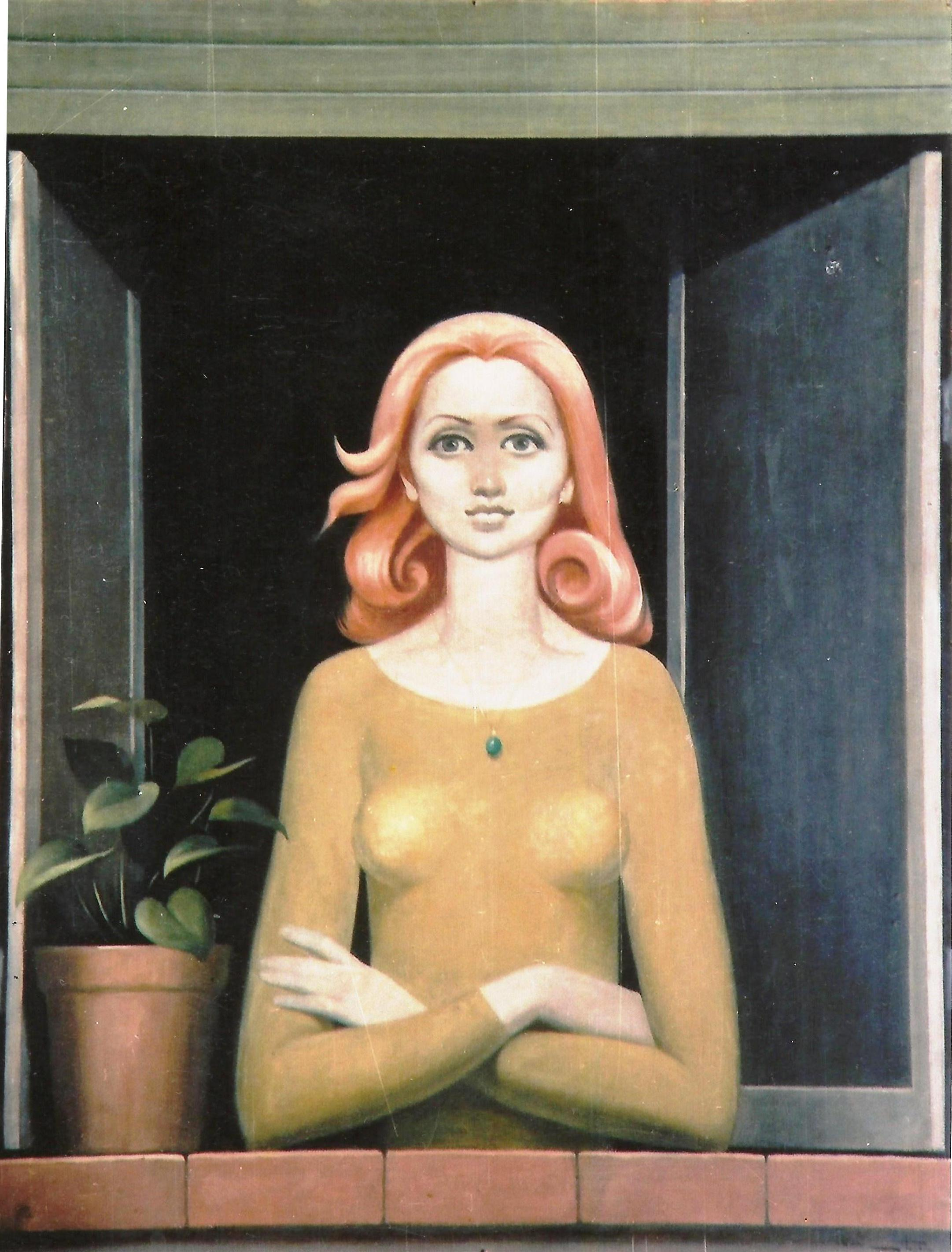 "Triumph" is a painting by Hussein Bicar to mark Egypt’s military victory in 1973 and the restoration of Sinai